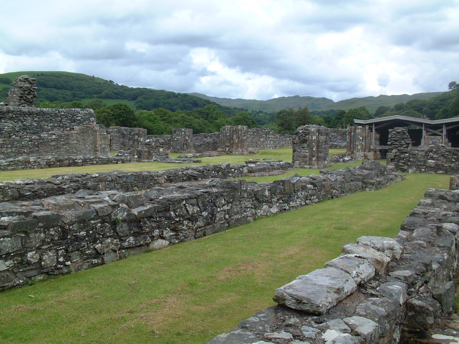 The ruins of the Cistercian abbey at Strata Florida in Wales